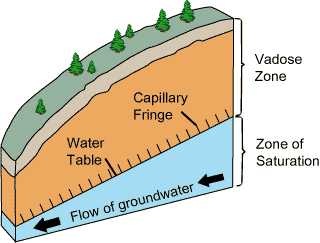 Cross-section of hillslope depicting water table, capillary fringe and vadose zone.